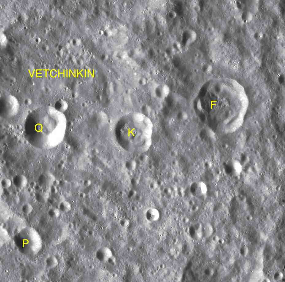 Part of the chart LAC-66 used for the presentation